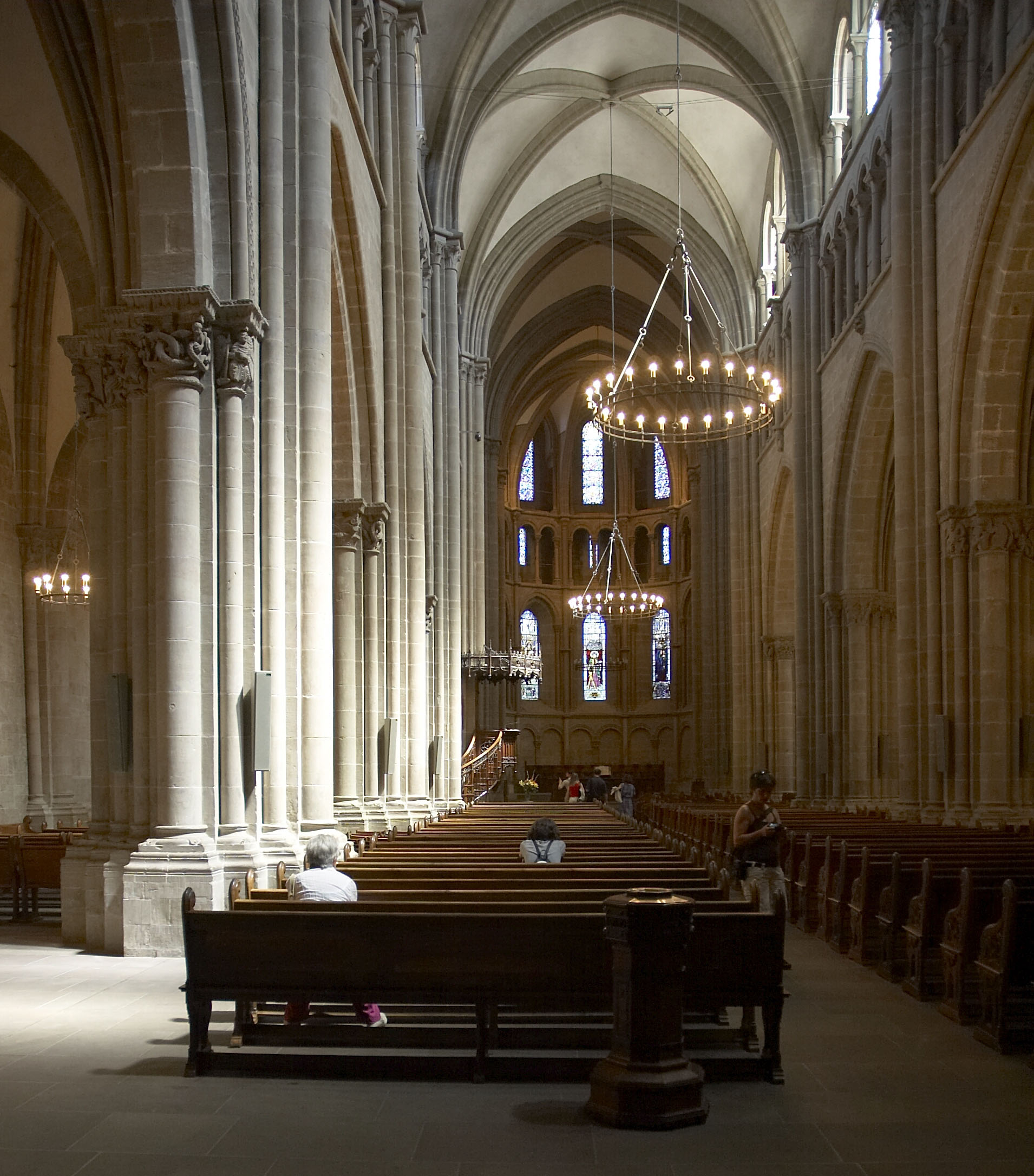 Inside the Cathédrale Saint-Pierre in Geneva